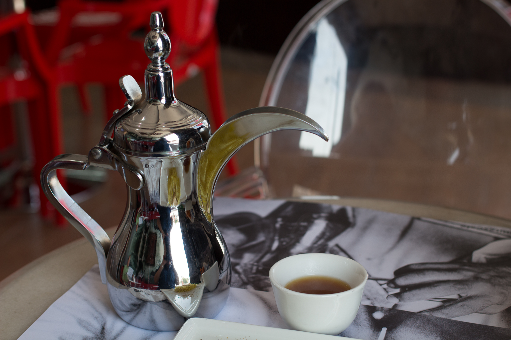 local bites cafe arabic coffee